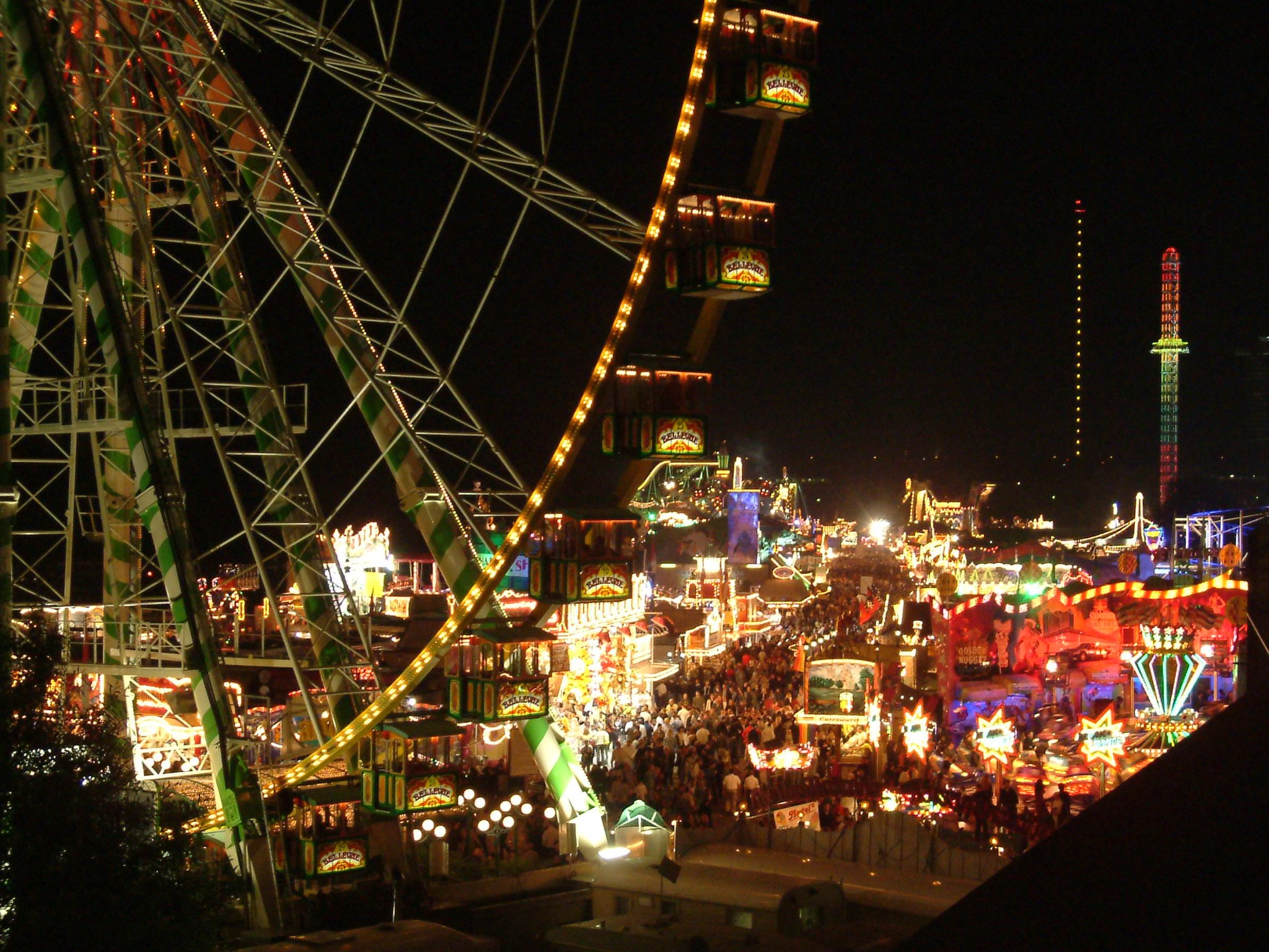 Duesseldorf parish fair